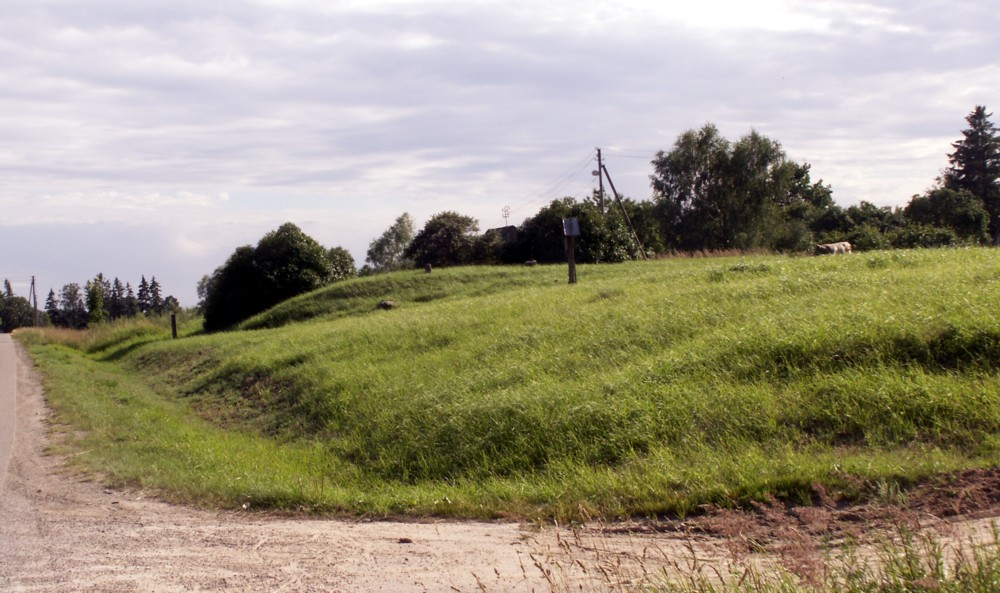 Širvučiai, Šiauliai district, Lithuania